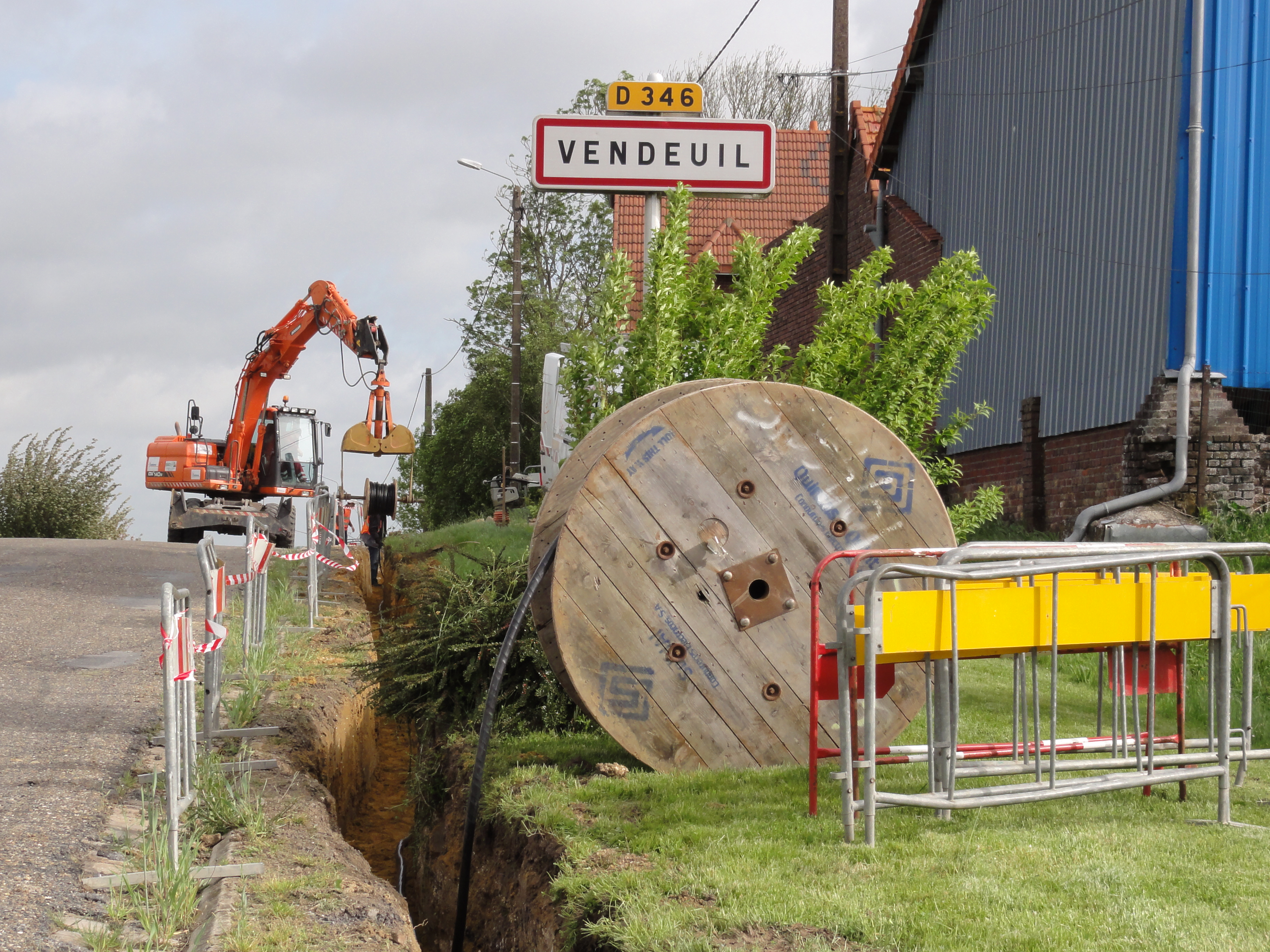 Vendeuil (Aisne) city limit sign